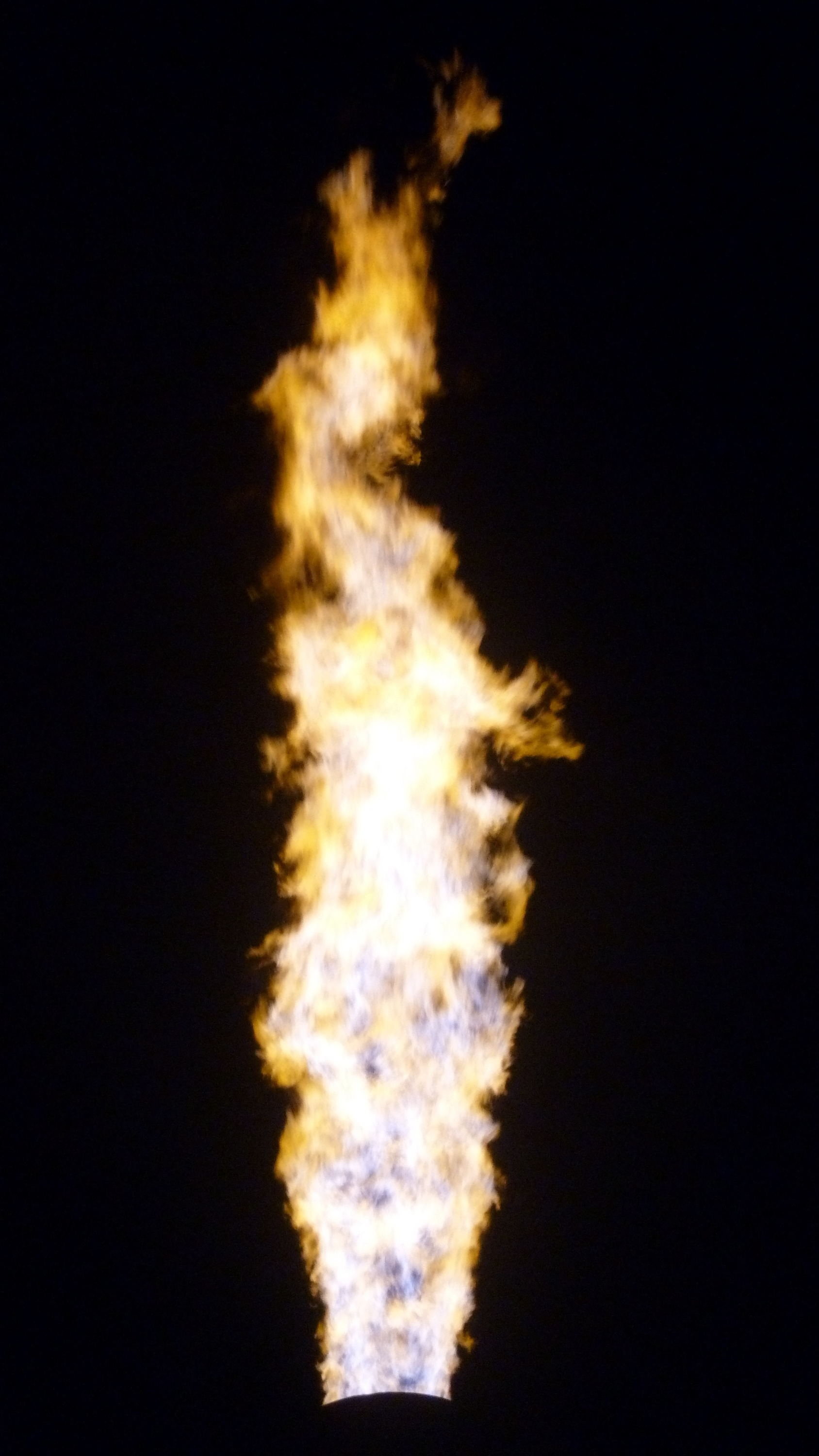 Flame from the combustion of LD converter gas at a flare. This white flame is constituted in fact by a blue base, and by a yellow panache, of which proportions vary according to the evolution of the blowing.